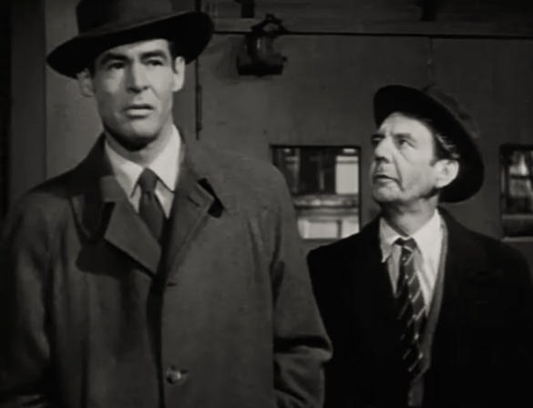 Robert Ryan (left) and Gus Schilling in On Dangerous Ground (1952) - trailer (cropped screenshot)